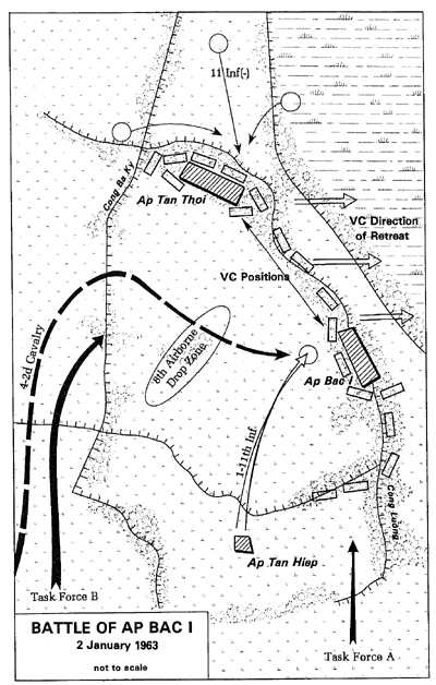 The map of the First Battle of Ấp Bắc, 1963.